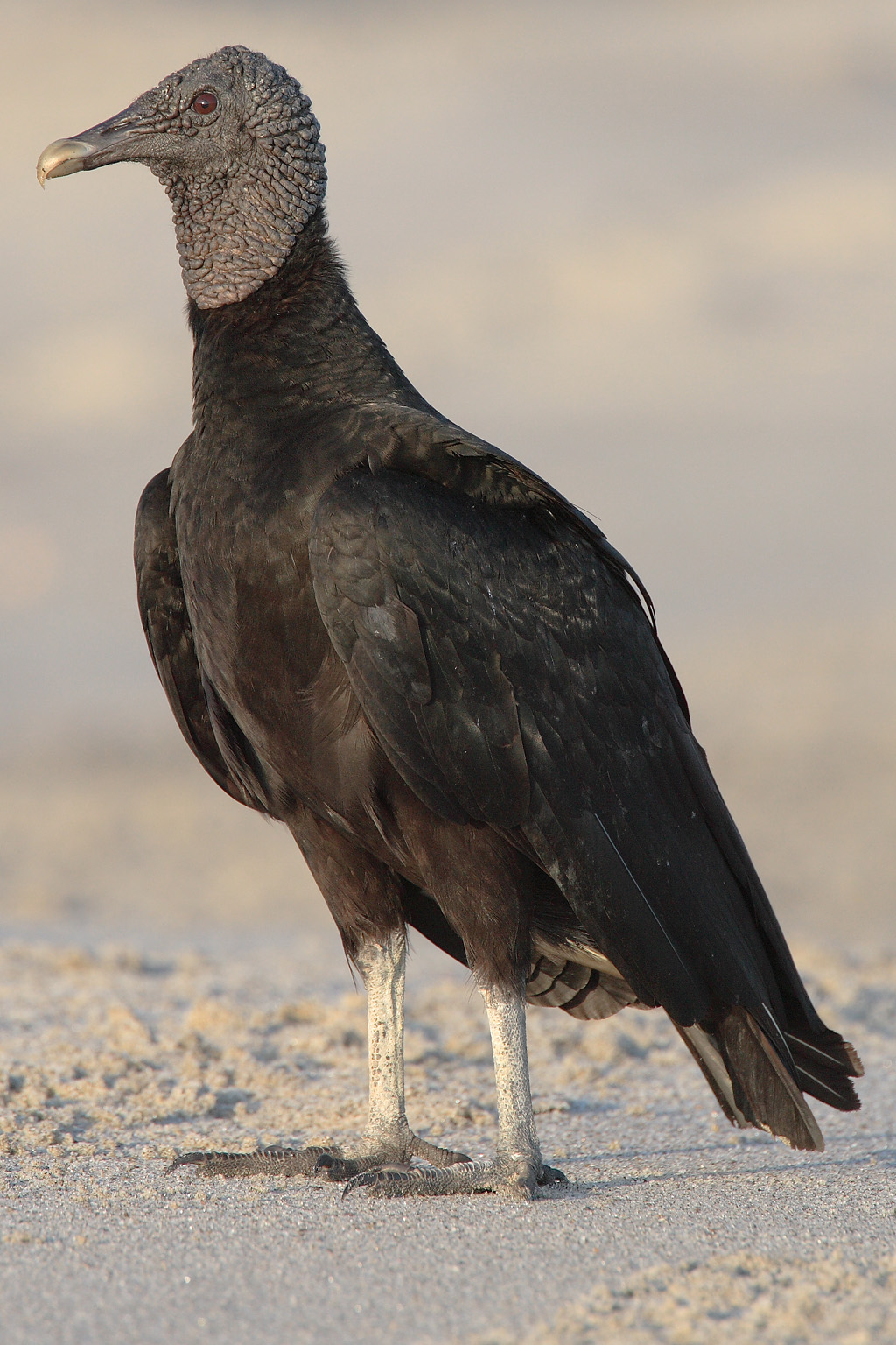 American Black Vulture Coragyps atratus, Farallon, Panama, 2005 December; This individual was one of a large group of vultures (and circling frigatebirds) waiting for fish offal from local fishermen.